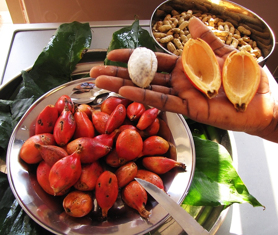 Detail of a fresh fruit from Aframomum alboviolacem, accompanied by fresh peanuts (Arachis hypogaea) Congo, central Africa. The whitish fruit pulp as shown is pleasantly tart, eaten in its entirety, without removing the seeds. In DR Congo known as kitundibila, ntundulu